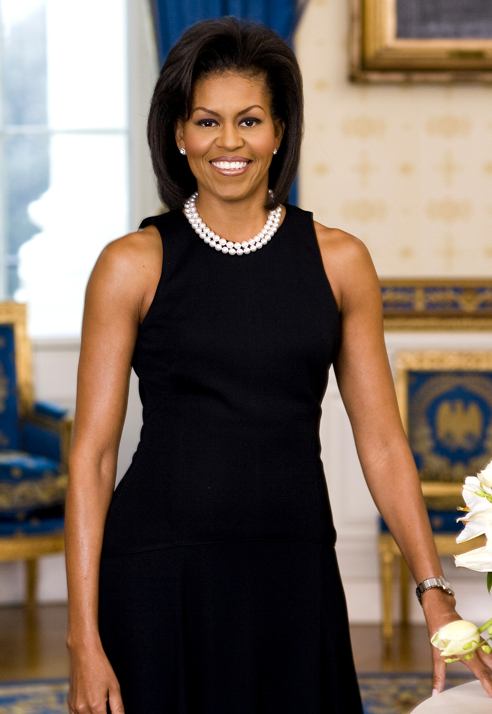 Michelle Obama, official White House portrait.